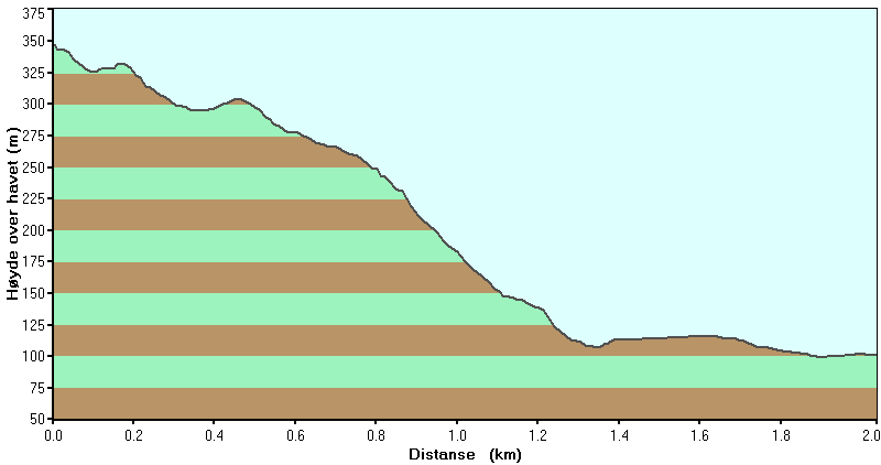 Profile to climb Kjølsfjellet in Brønnøy, Nordland, Norway